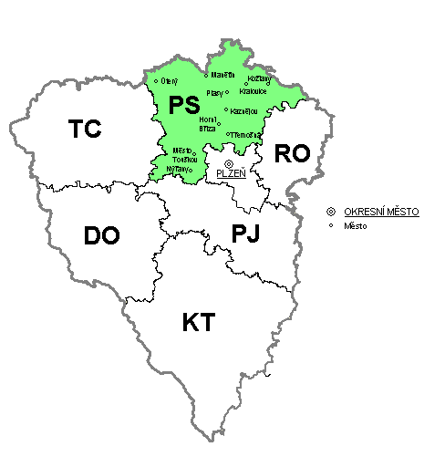 Map of Plzeň sever district